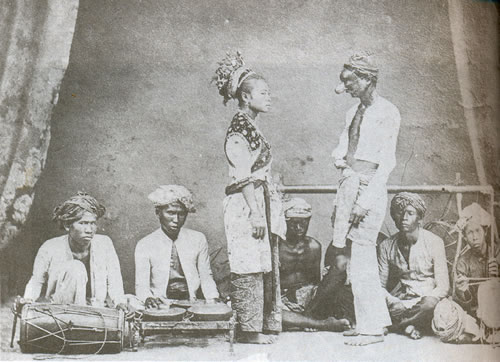 A group of Pattani Malay dancers performing Mak Yong during the 19th century.